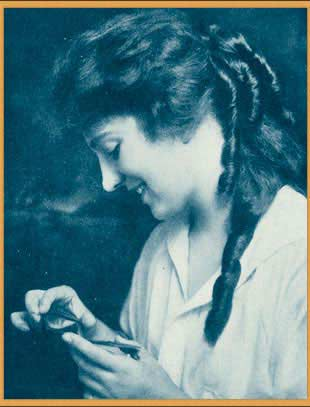 Publicity photo of Helen Holmes from Stars of the Photoplay